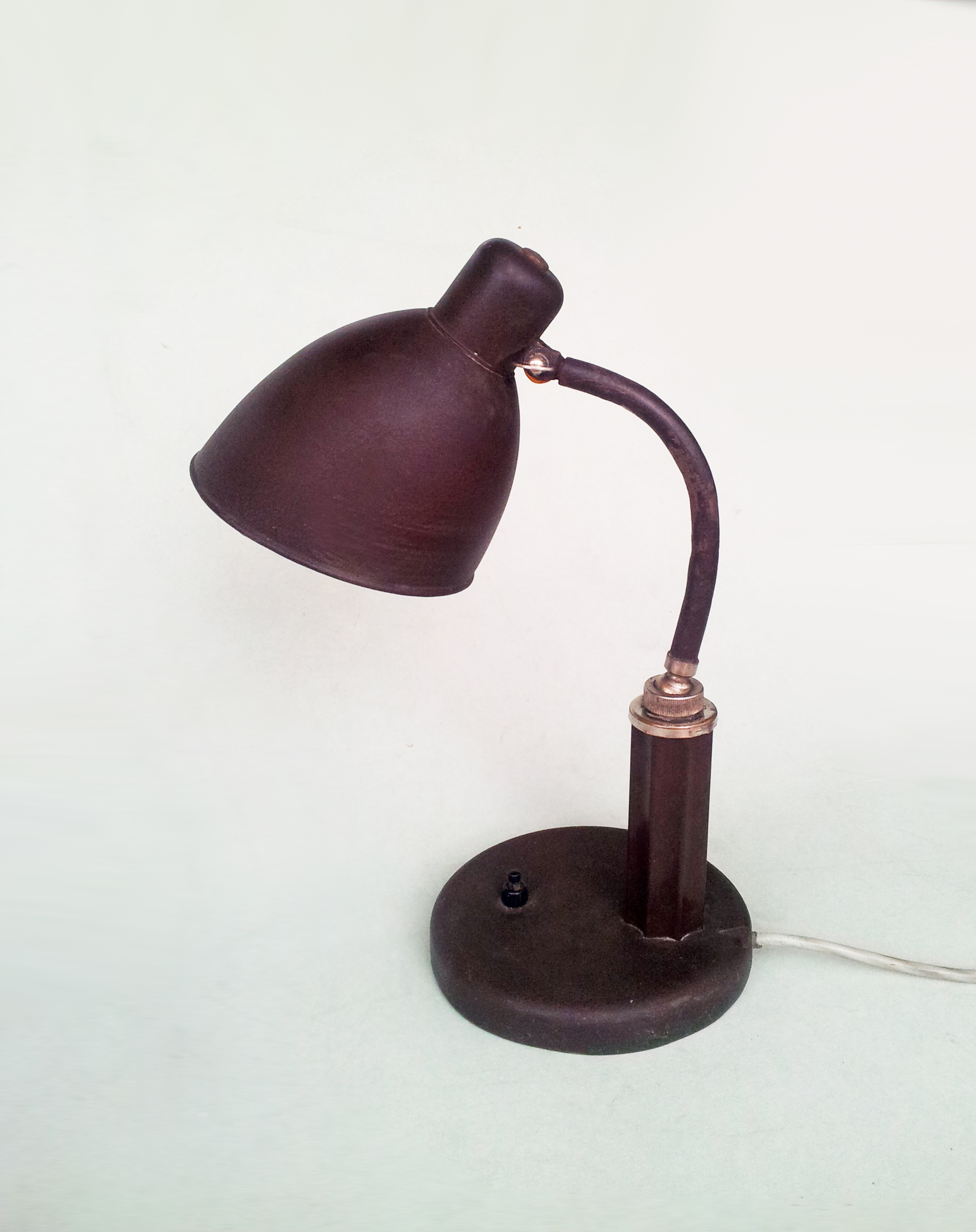 Office lamp "Molitor Grapholux" designed by Christian Dell for Molitor Zweckleuchten, Berlin. Material: Painted metal with textured finish, brass mounts and bakelite column detail. The lamp has a adjustable pivoting arm & shade.